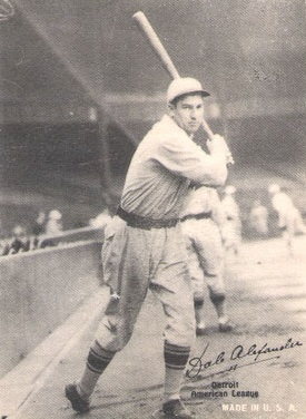 R316 baseball card of baseball player Dale Alexander